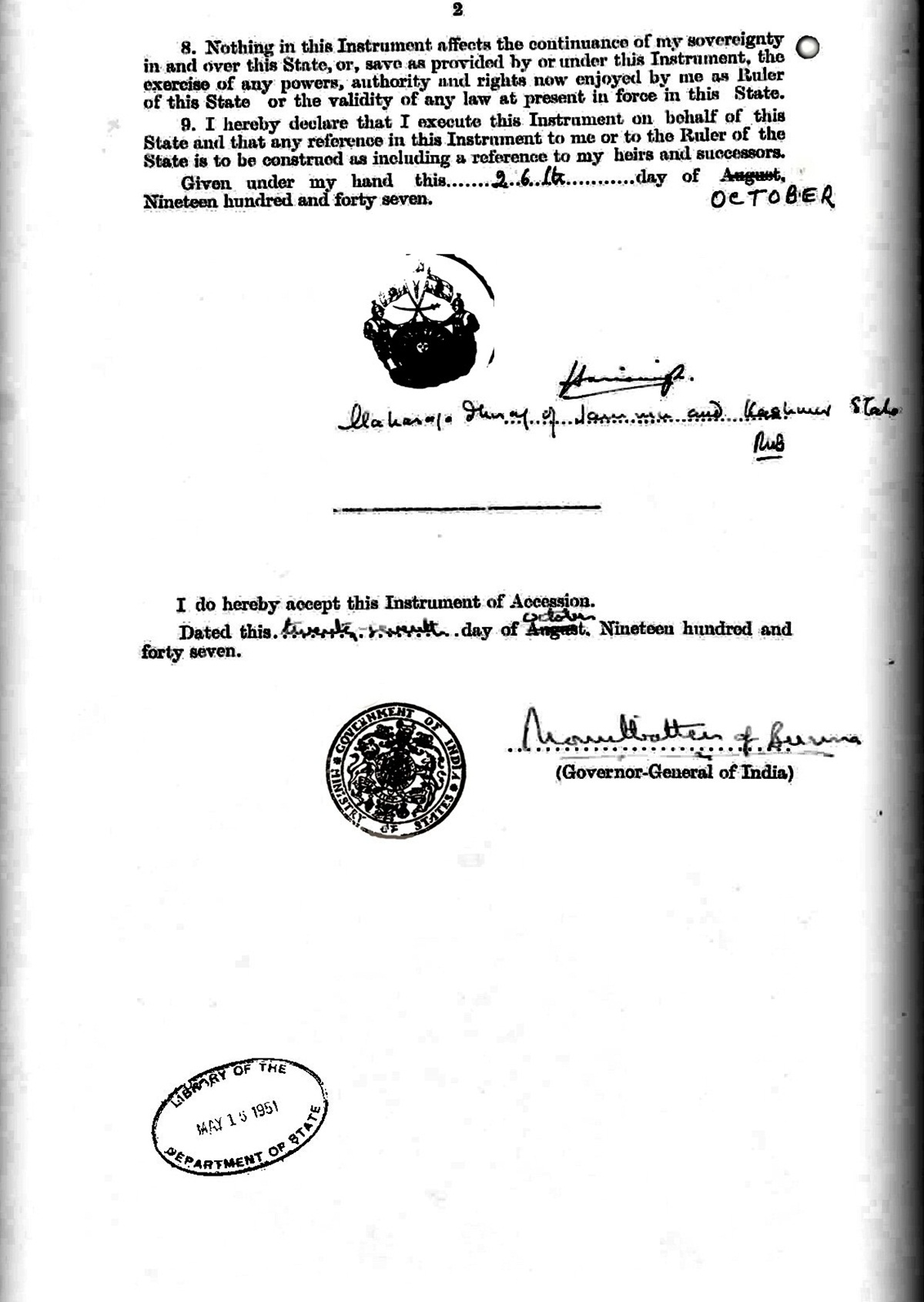 Kingdom of Kashmir accession to Dominion of India document 10/26/1947 State Department library